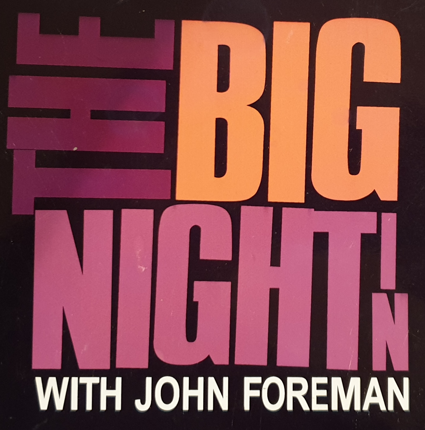 The Big Night In With John Foreman Tv Show Logo